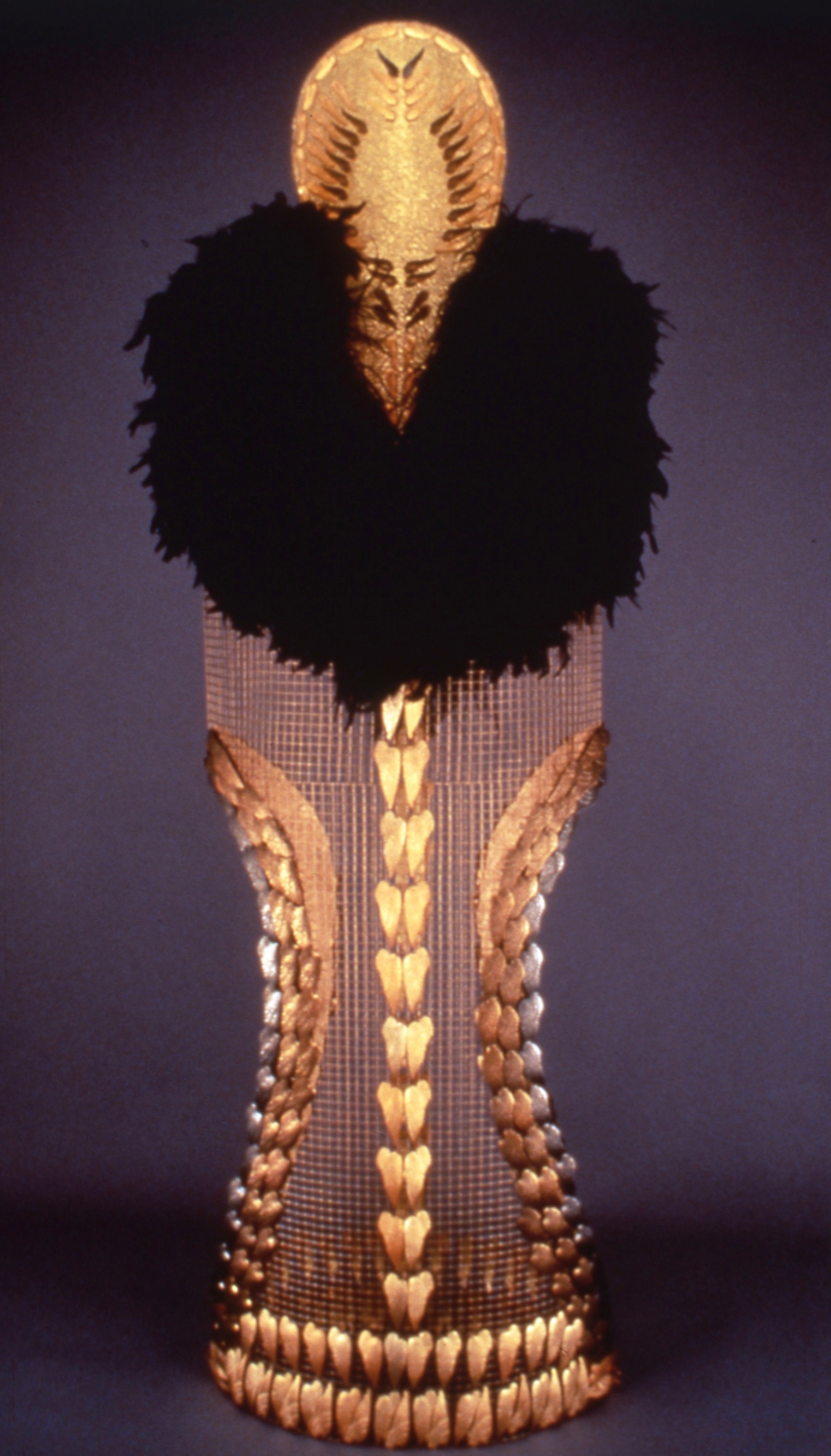 Josephine, 1992. © Mary Curtis Ratcliff. Nickel, gold plate, feathers, Japanese paper, and steel. 77 x 29 x 22 in.